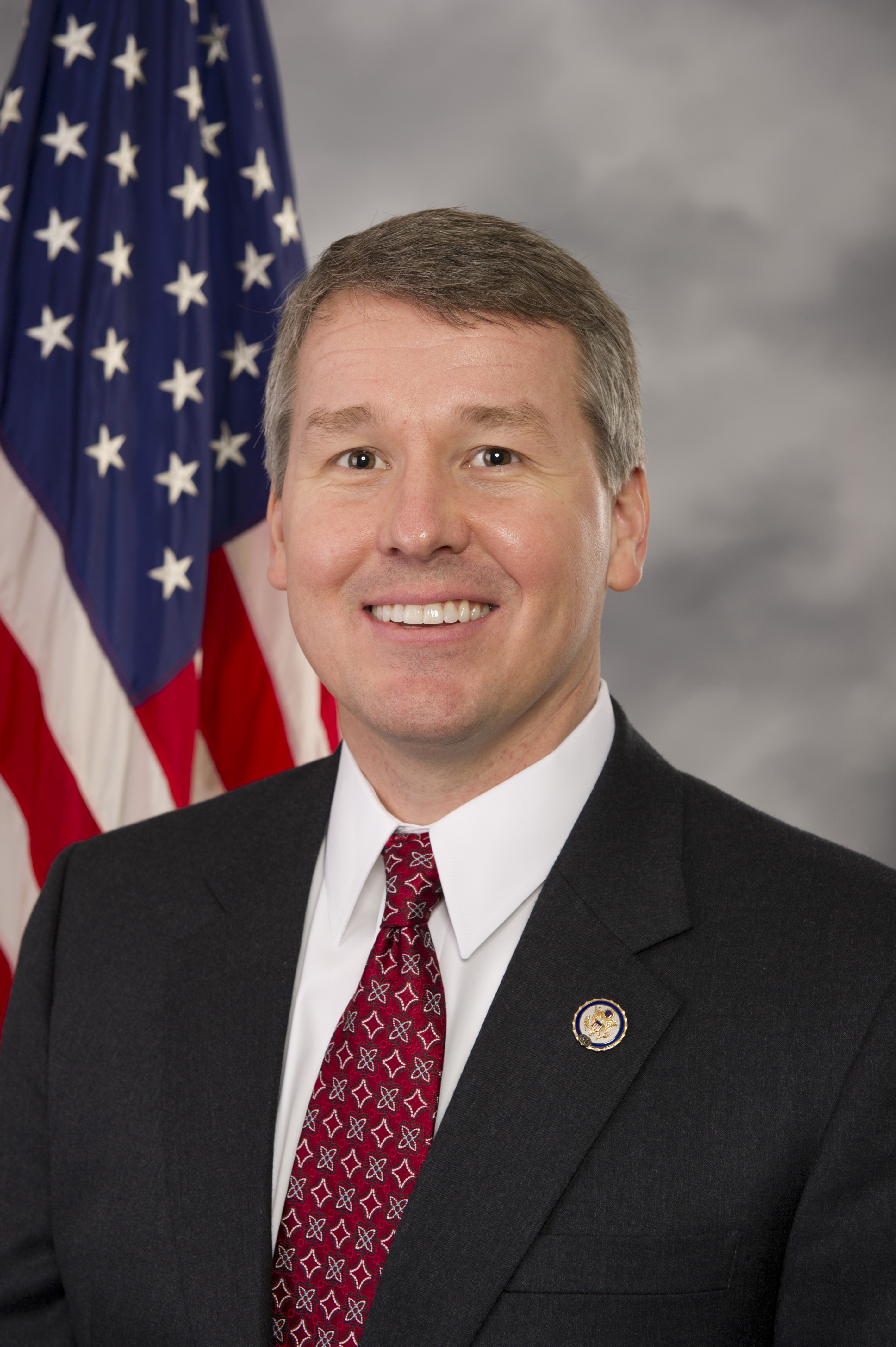 Official portrait of Congressman Rob Woodall